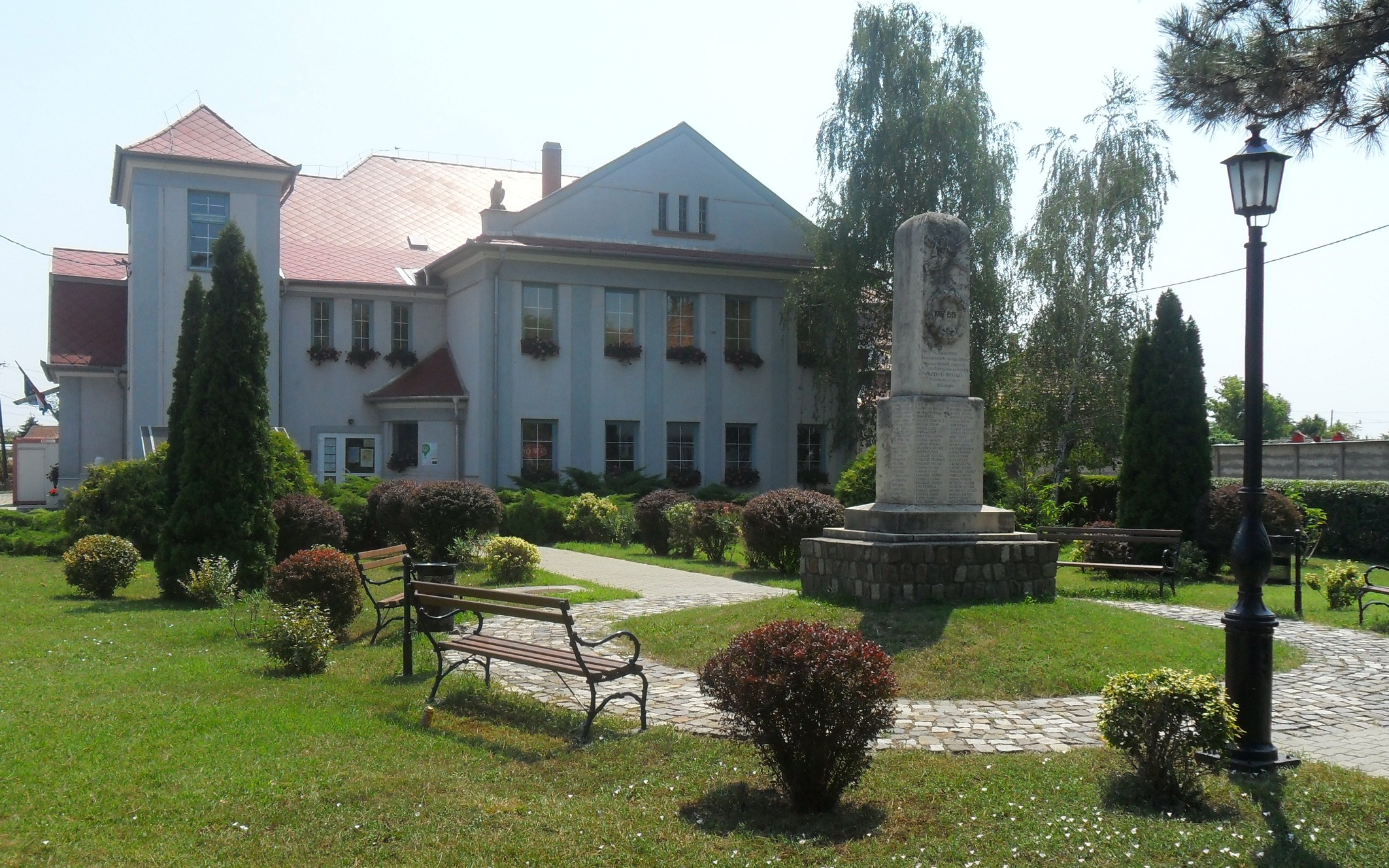 Cultural Centre and its park